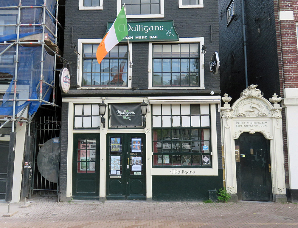 Mulligans Irish Music Bar, which is located at Amstel 100 in Amsterdam since 1988.